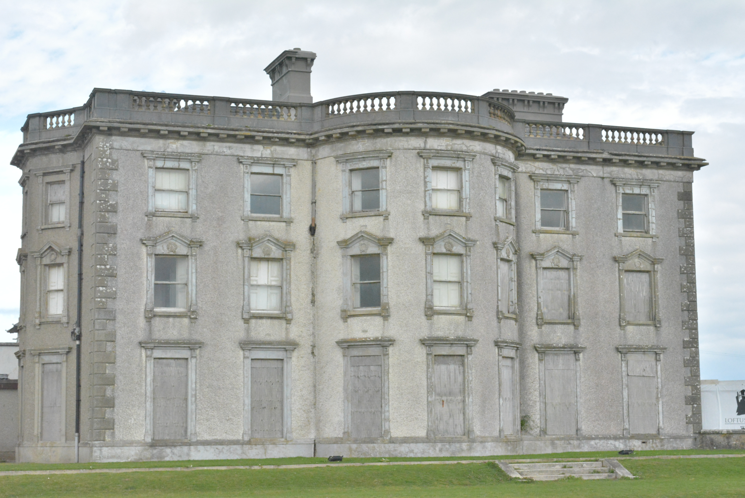 Loftus Hall, Wexford, Ireland